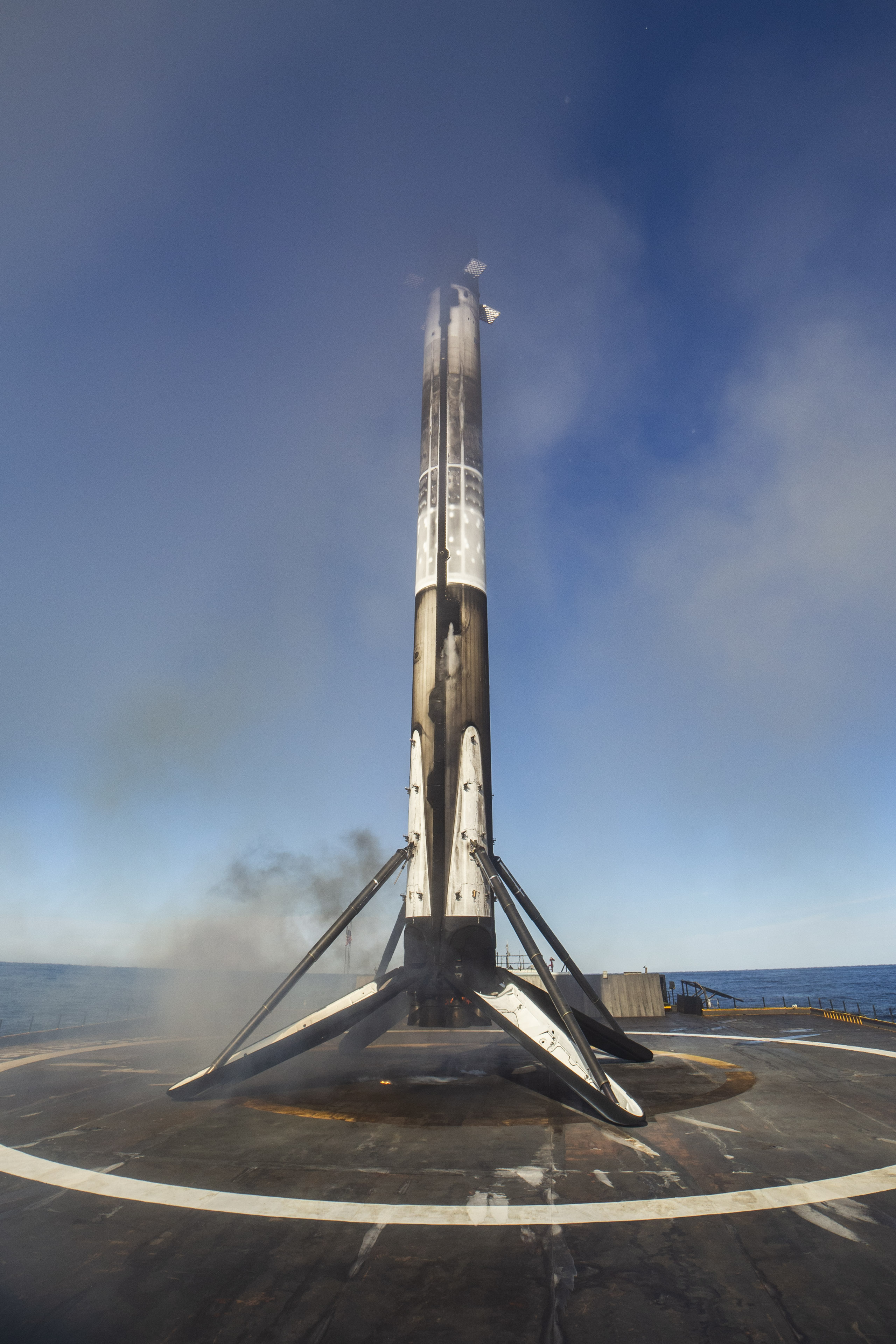 Spaceflight SSO-A Mission